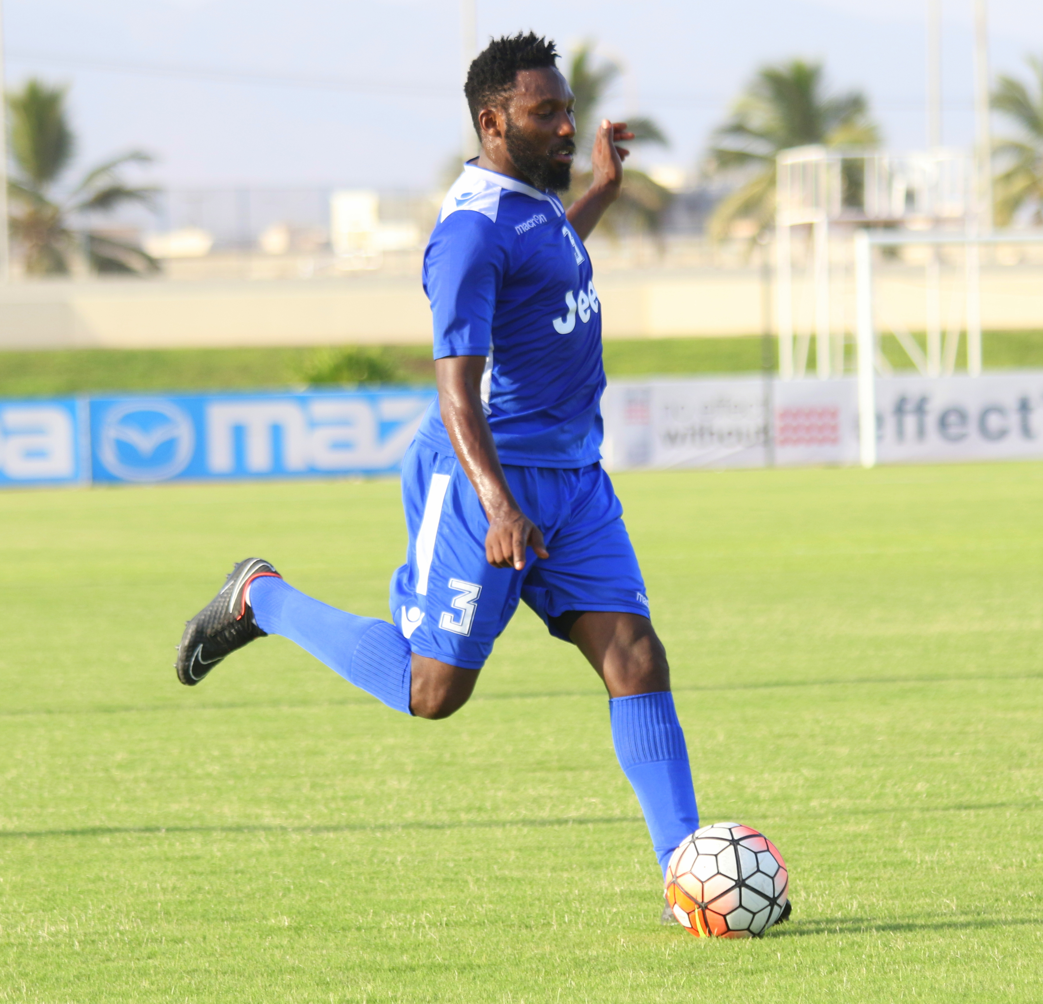 Jamal Mohamed in a match against Al Musannah Club. 20 March 2016 Auqad Sports Complex, Auqad, Salalah, Oman Photographer : Pratyush Mishra Photographer email id